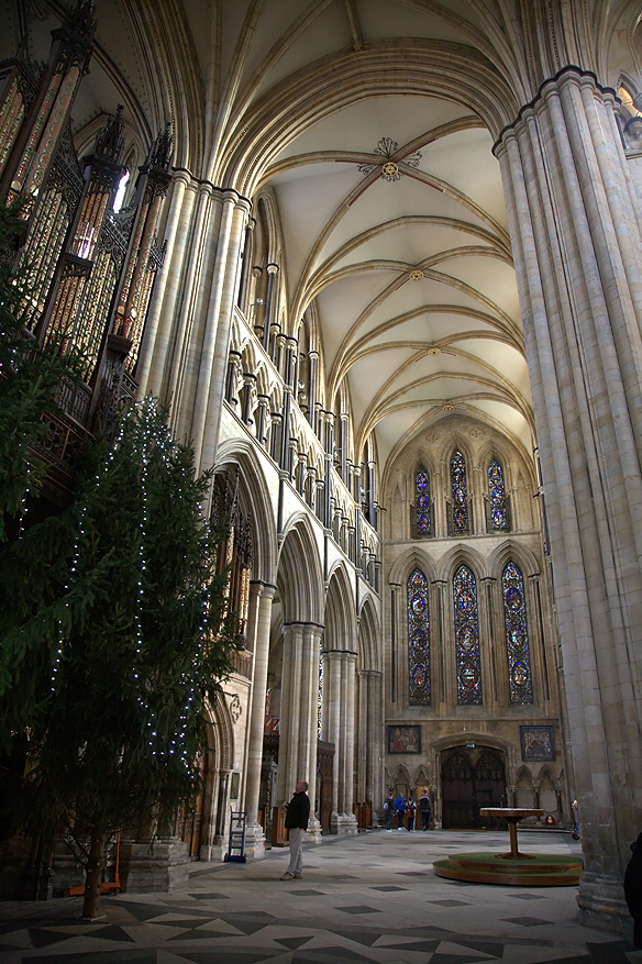 Beverley Minster interior, Beverley, East Riding of Yorkshire, England.